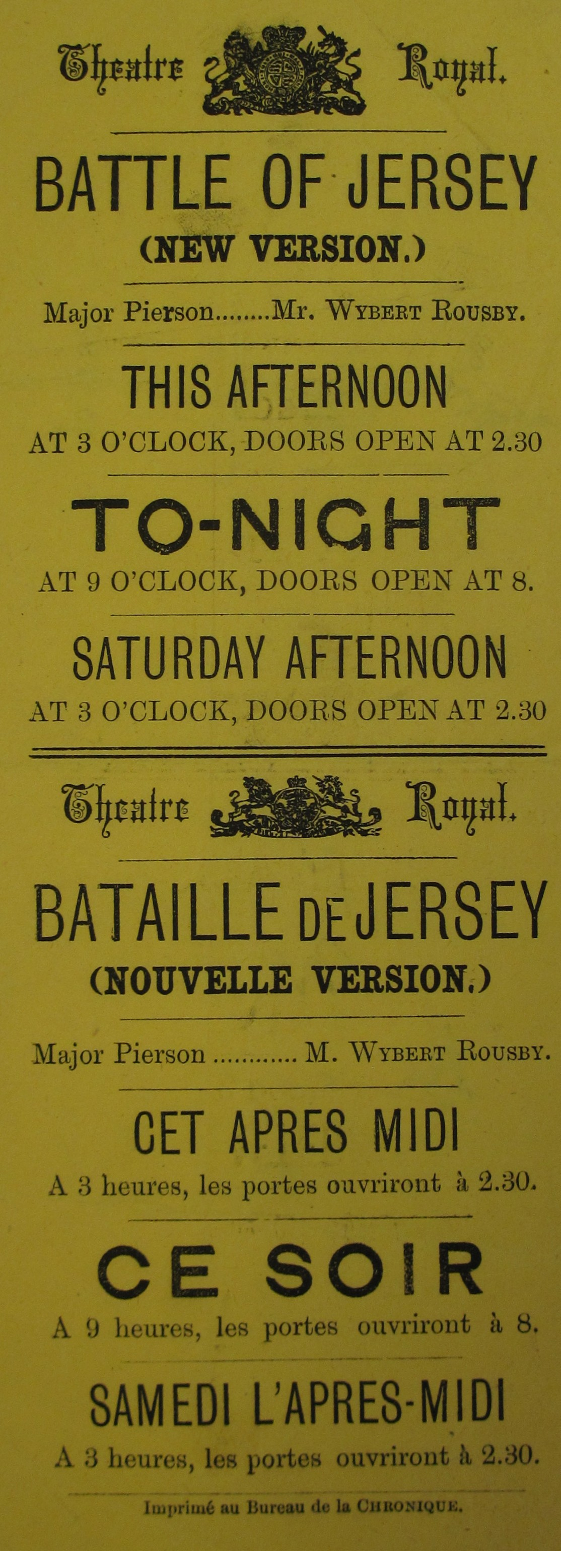 Playbill for The Battle of Jersey at the Theatre Royal, Jersey: circa 1899?